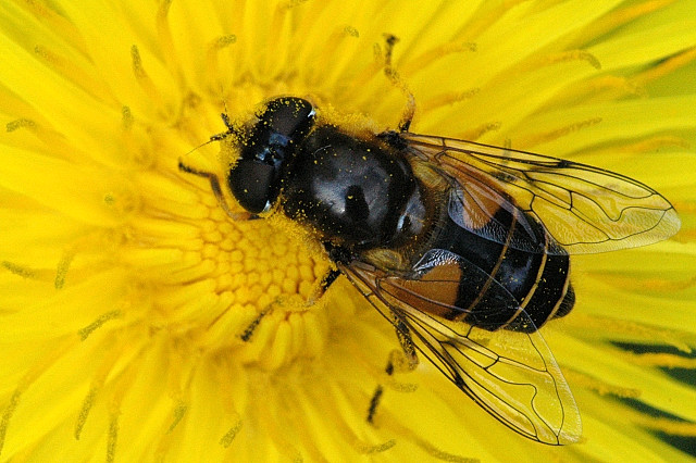 Eristalis lineata from Commanster, Belgian High Ardennes .